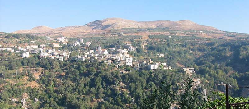 Photo of Kfarsghab taken from the opposite side of the valley in the village of Aintourine